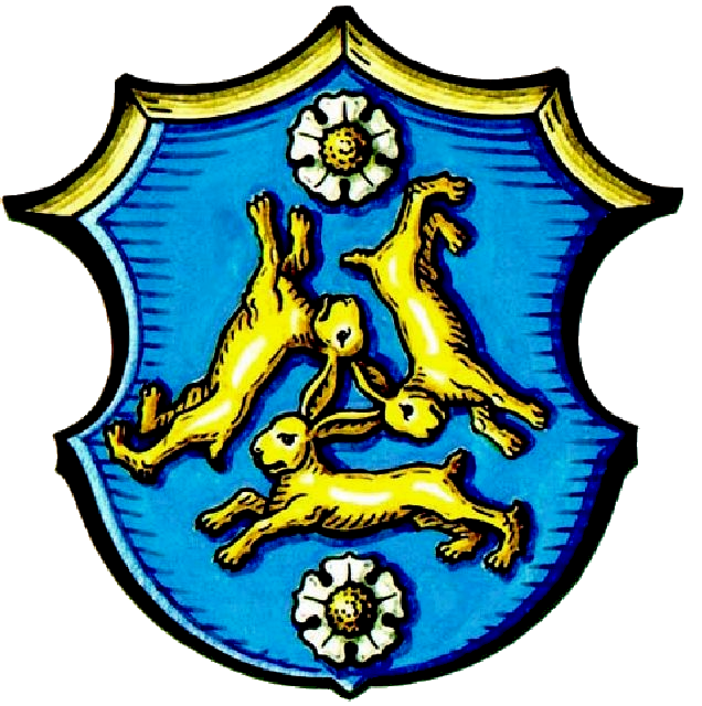 Coat of Arms of Hasloch